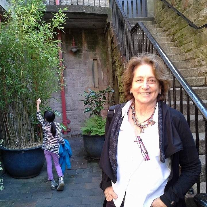 Photo of Liz Rosenberg from 2017. Because I could not take a picture of her, I sadly missed her bookstore meetups for yesterday and today due to conflicts with other events.